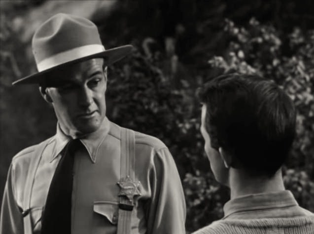 Arthur Space (left, with Lon McCallister) in The Red House - cropped screenshot